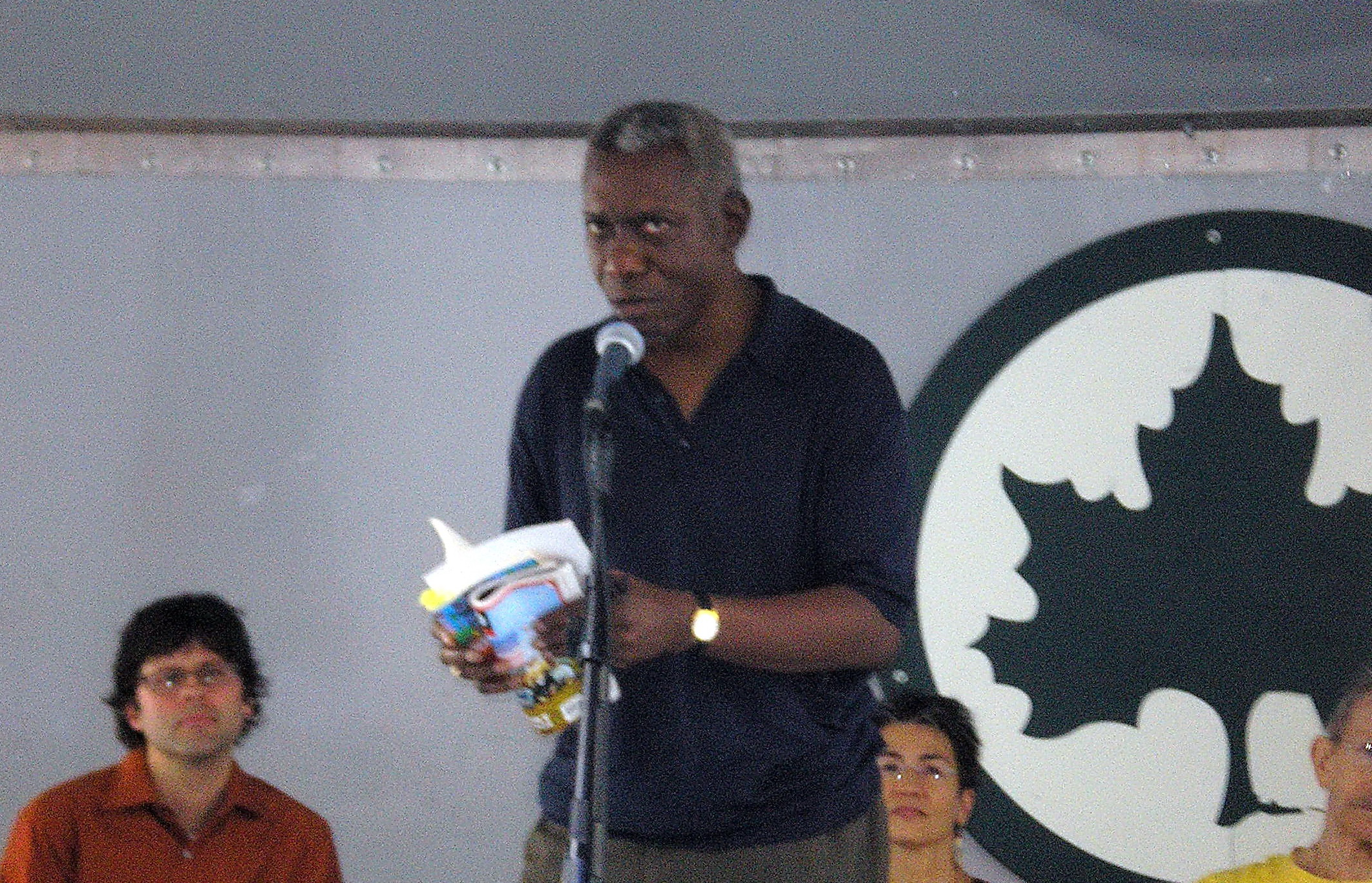 Yusef Komunyakaa by David Shankbone, New York City